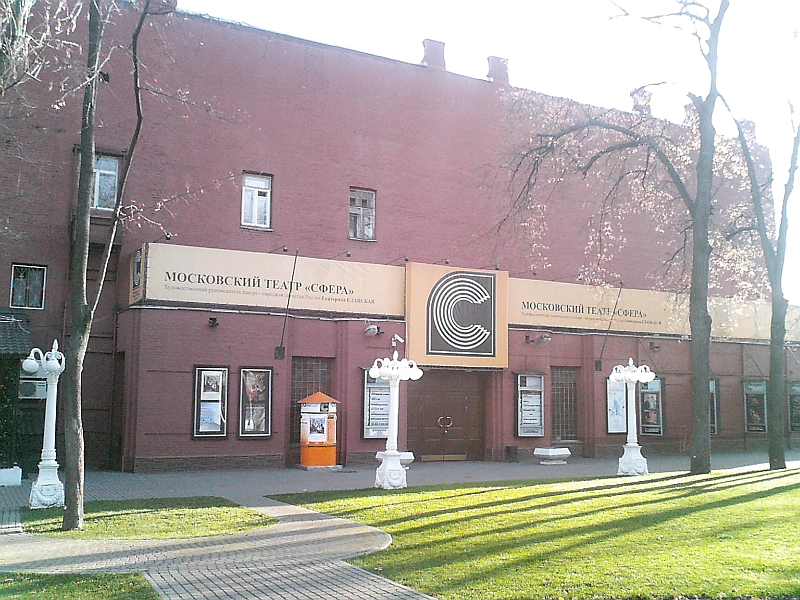 Hermitage Garden Sphere Theater Moscow.